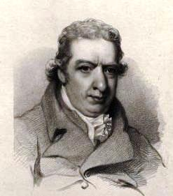 Chalmers by Richard James Lane ref d8079Alexander Chalmers by Richard James Lane. Lithograph, circa 1836 11 1/4 in. x 8 1/8 in. (286 mm x 206 mm) paper size